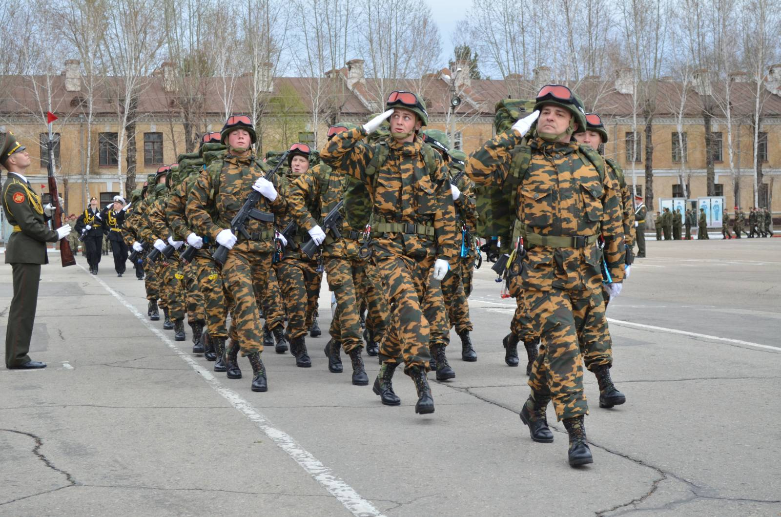 ДВВКУ